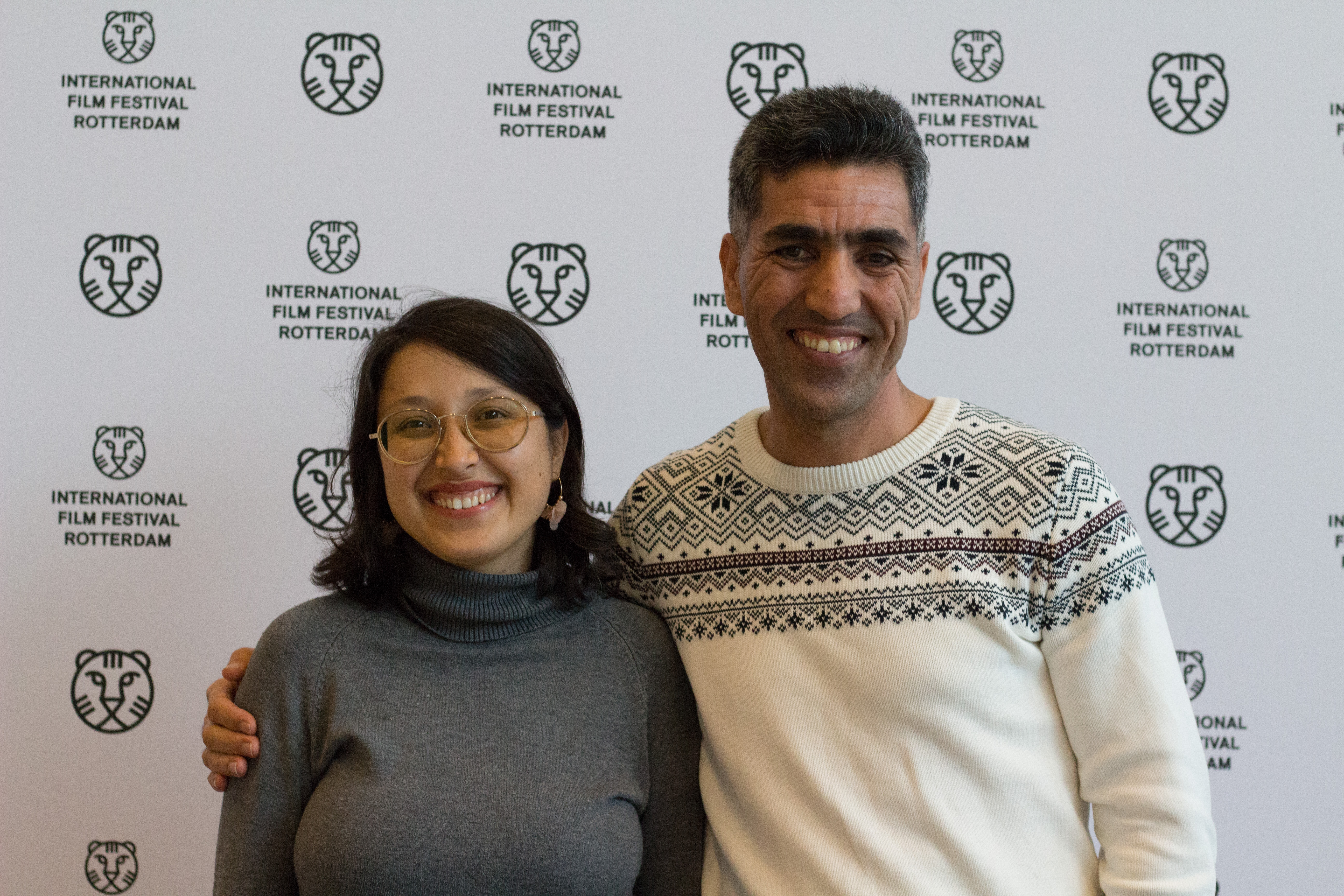 Shahrbanoo Sadat and Anwar Hashimi at the IFFR 2020 promoting the movie "The Orphanage"